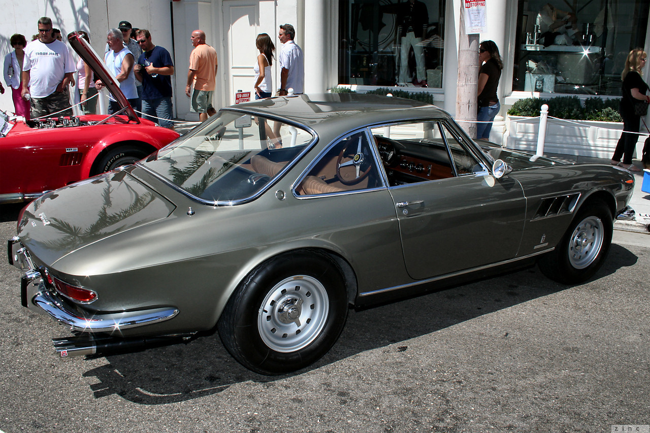 Beverly Hills Concours d'Elegance 2007